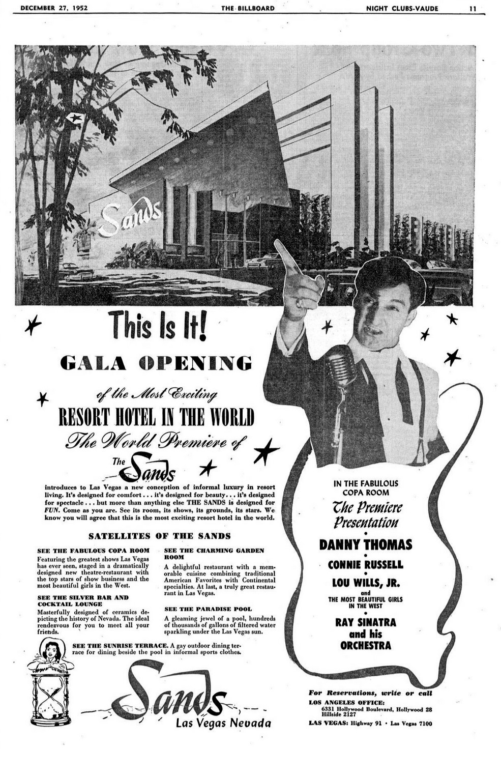 Opening of the Sands Hotel & Casino in Las Vegas-ad in Billboard December 27, 1952.